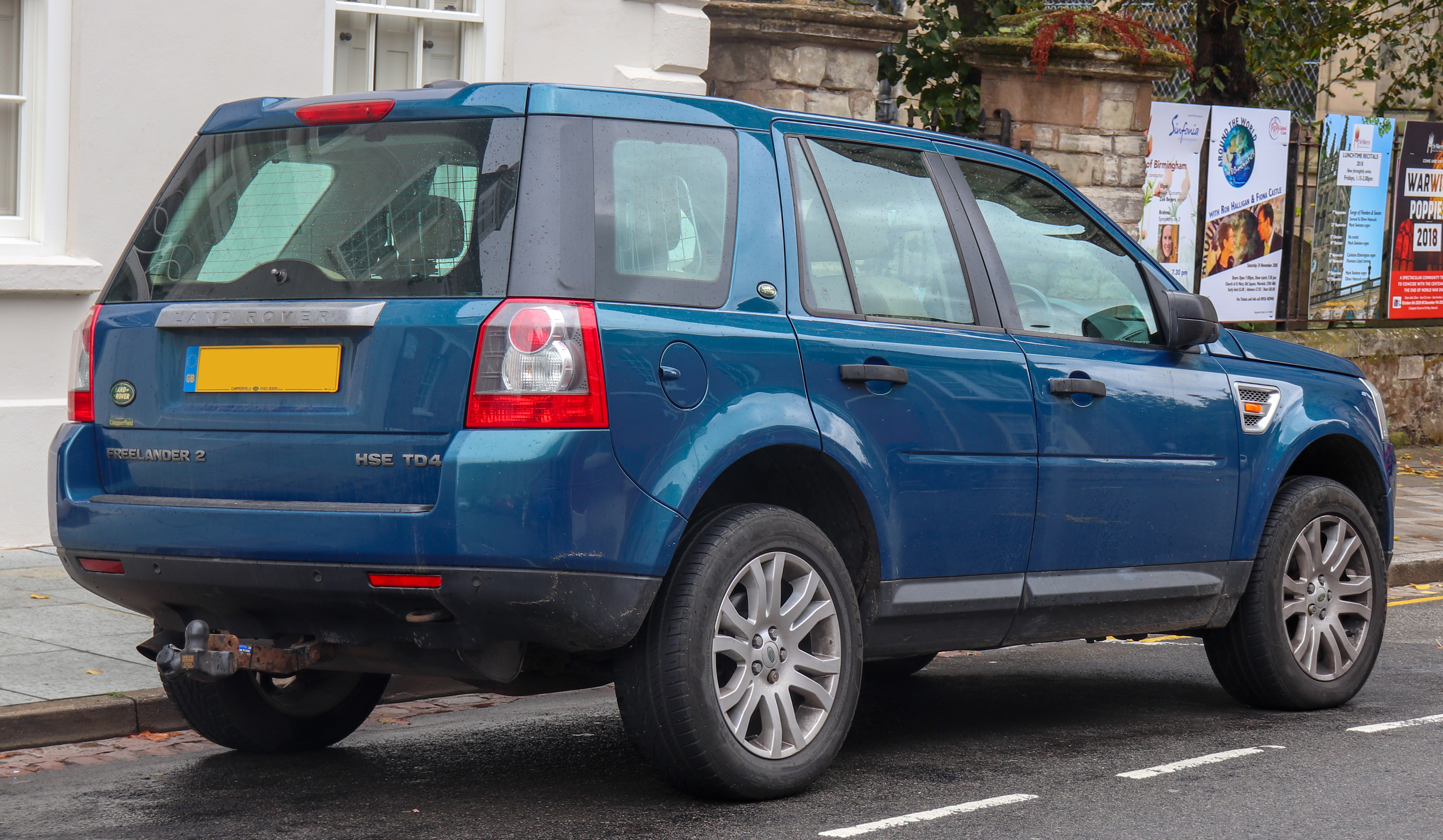 2008 Land Rover Freelander HSE TD4 Automatic 2.2 Rear Taken in Warwick